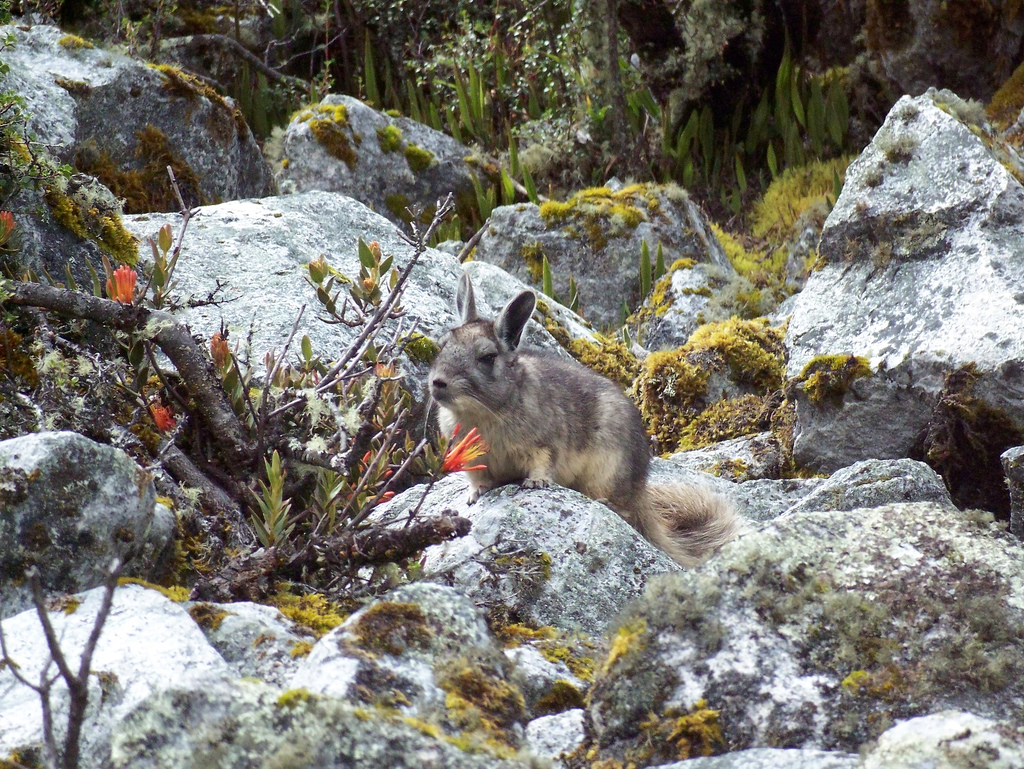 Source/Author: Nelson Mitchell "Northern Vizcacha in the 'Parque Nacional Huascaran', Cordillera Blanca Mountains, Huaraz, Peru" I took this picture while hiking in the Andes in Northern Peru.